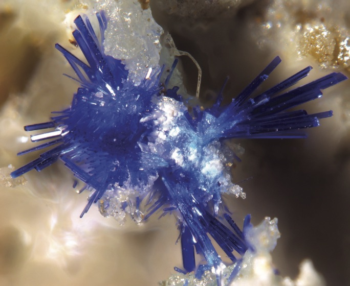 Image of a triazolite crystal